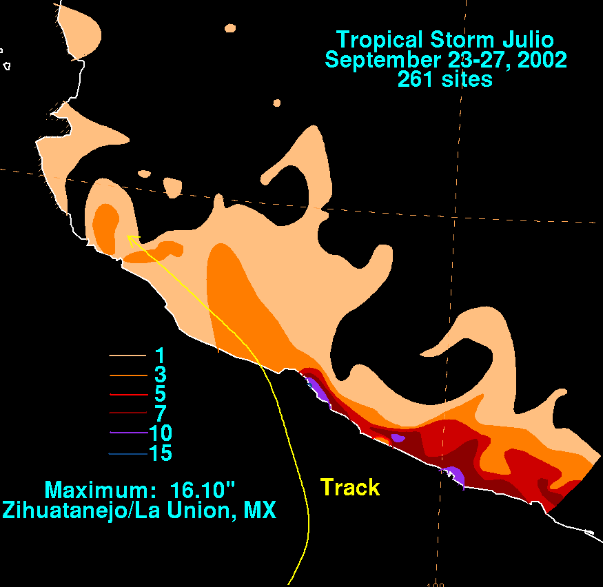 Storm total rainfall map of Tropical Storm Julio during September 2002.